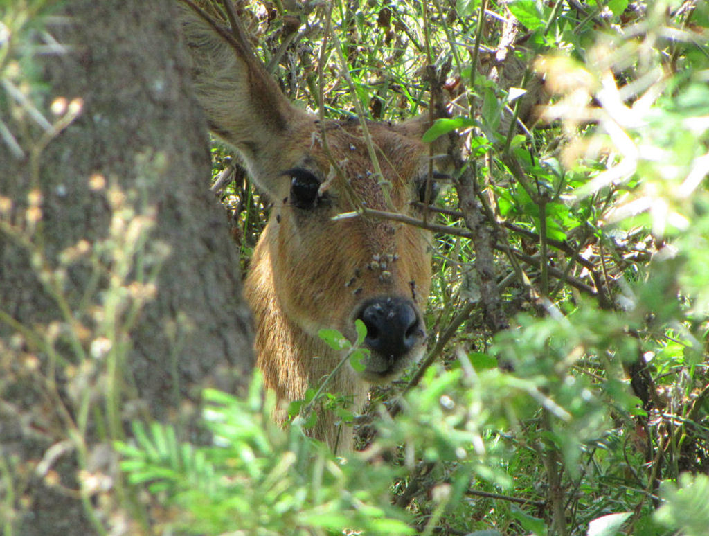 Bohor Reedbuck (Redunca redunca), female, Serengeti, Tanzania